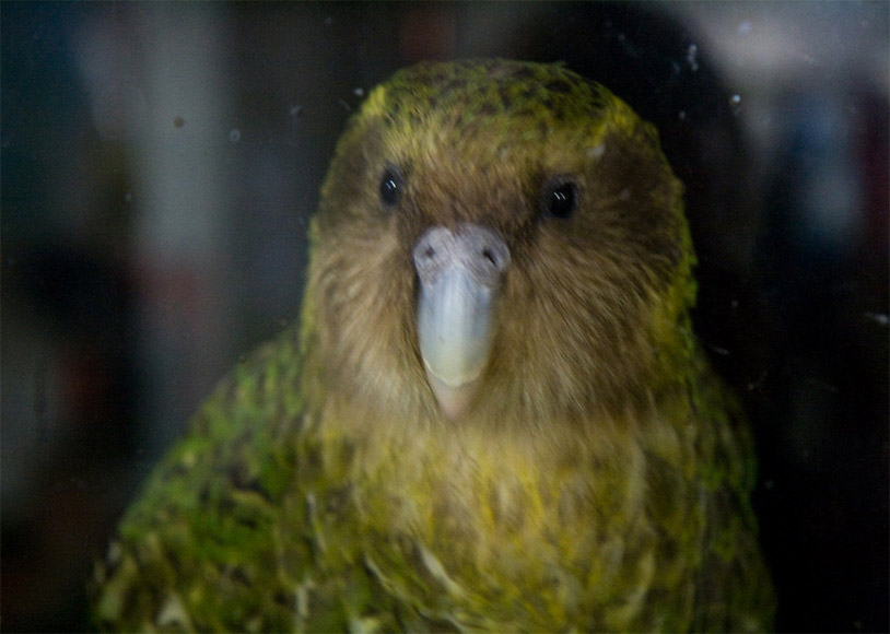 Sirocco looks through the window of the hut at Sealer's Bay on Codfish Island. Photo: Josie Beruldsen.